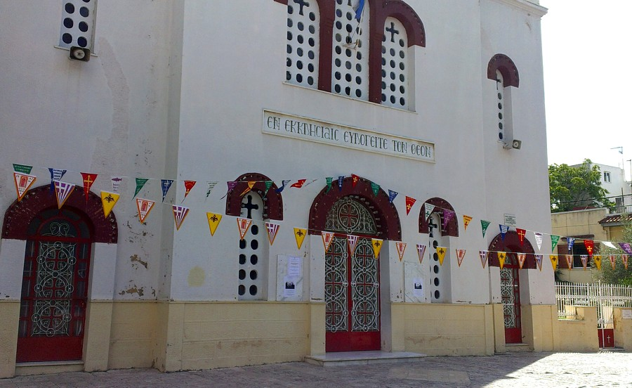 xalkidona